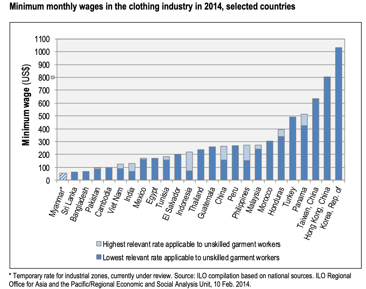 This graph by the ILO shows the wages of third world countries garment workers